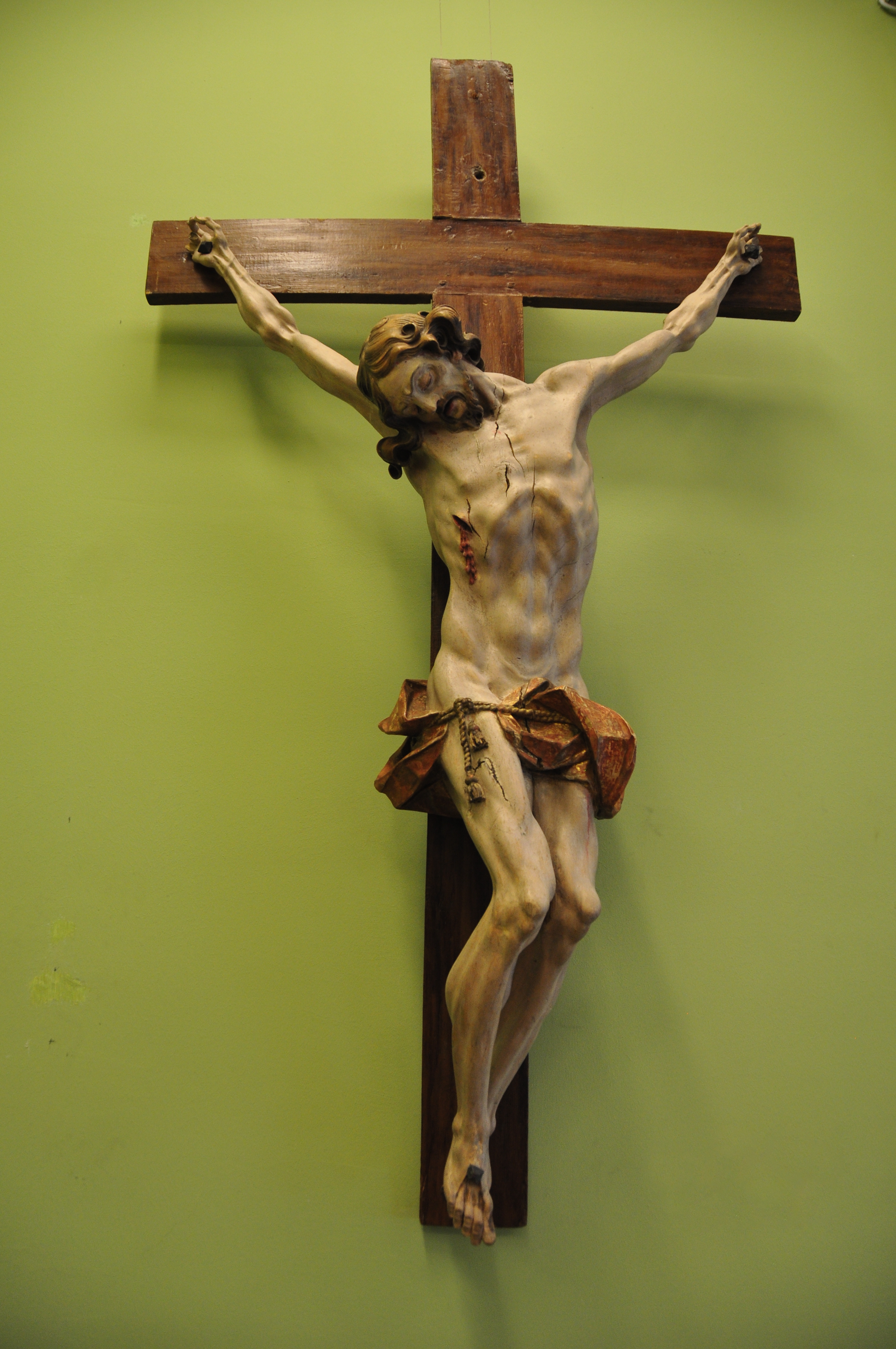 Johann Georg Pinzel. Crucifix. About 1755-1760. Carving. Linden wood, polychromy, gilding. Exhibition in the Lviv Art Gallery